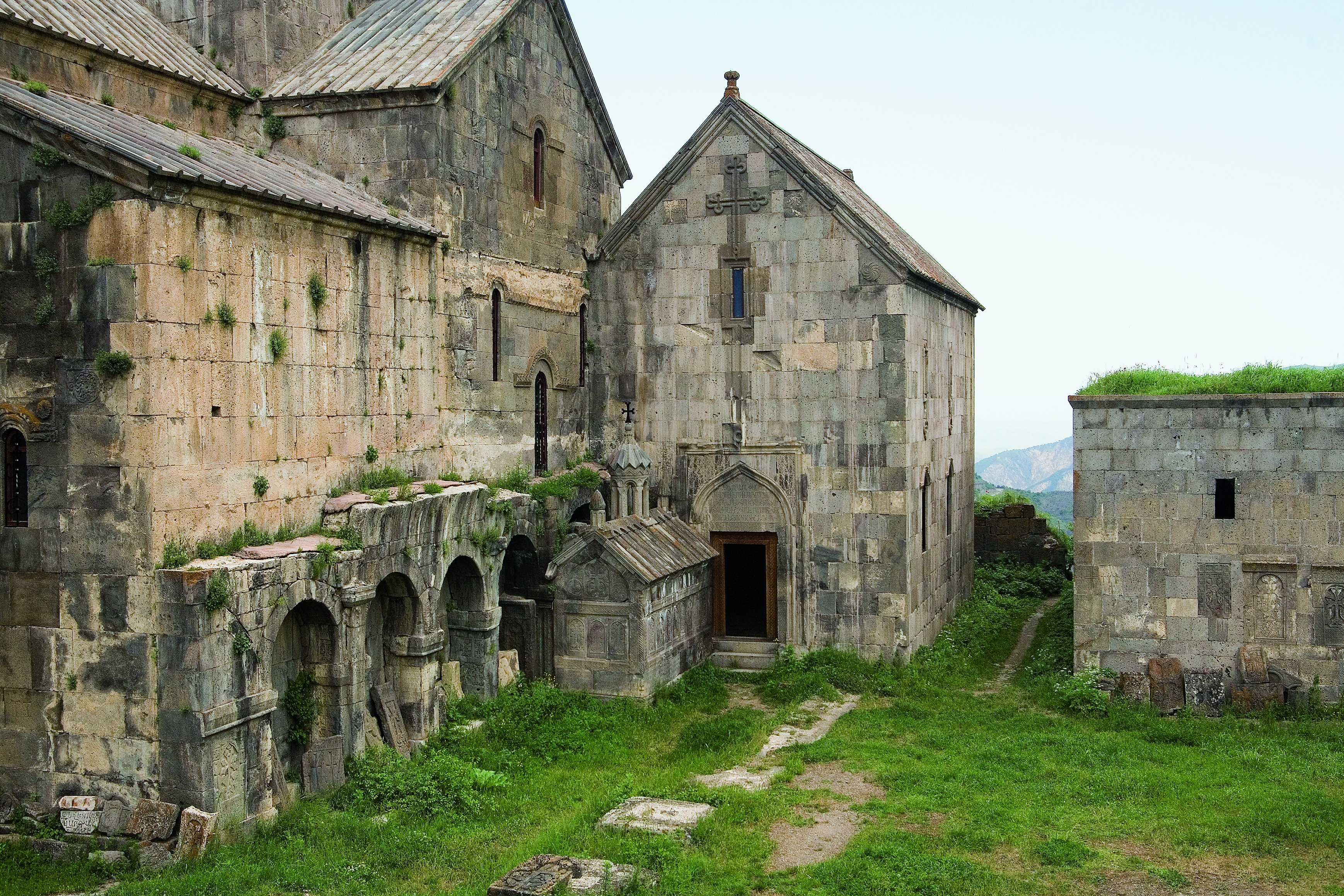 Tatevatsi’s Gravestone 97/9.6